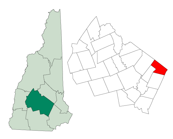 Map of a municipality in Merrimack County, New Hampshire